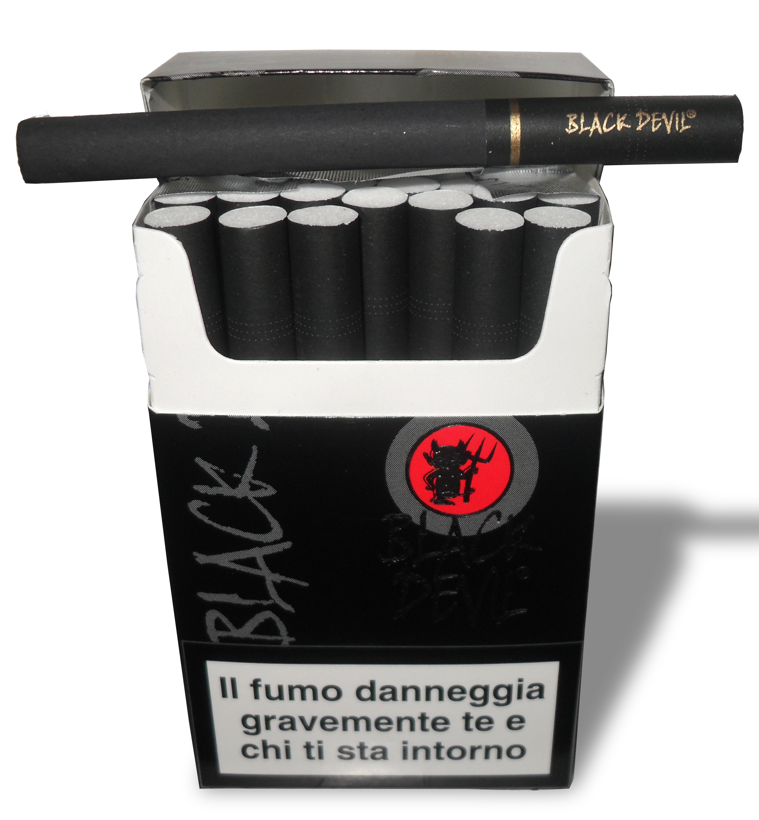 A pack of Black Devil, vanilla flavour.